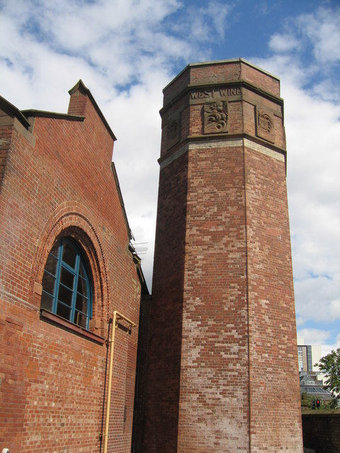 The Four Winds Building, Pacific Quay, Glasgow